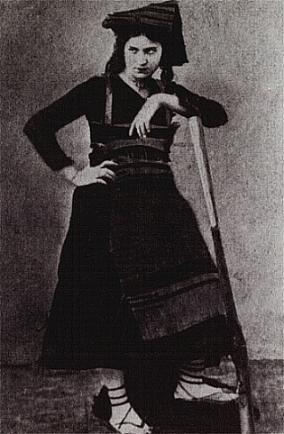 Michelina de Cesare, born in 1841, died (killed by piemontesian soldiers) in 1868, woman from South Italy who joined a group of robbers (brigantessa).